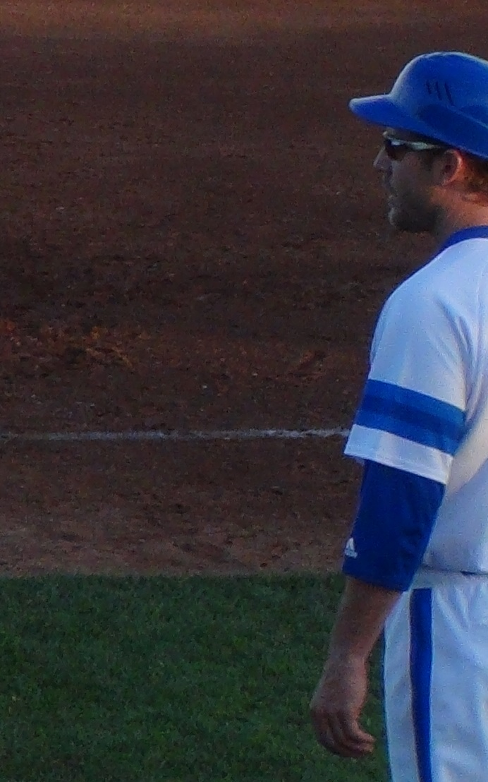 San Jose State volunteer assistant coach and former professional baseball player Brock Bond during a game against Fresno State at Excite Ballpark in San Jose, California on April 18, 2019